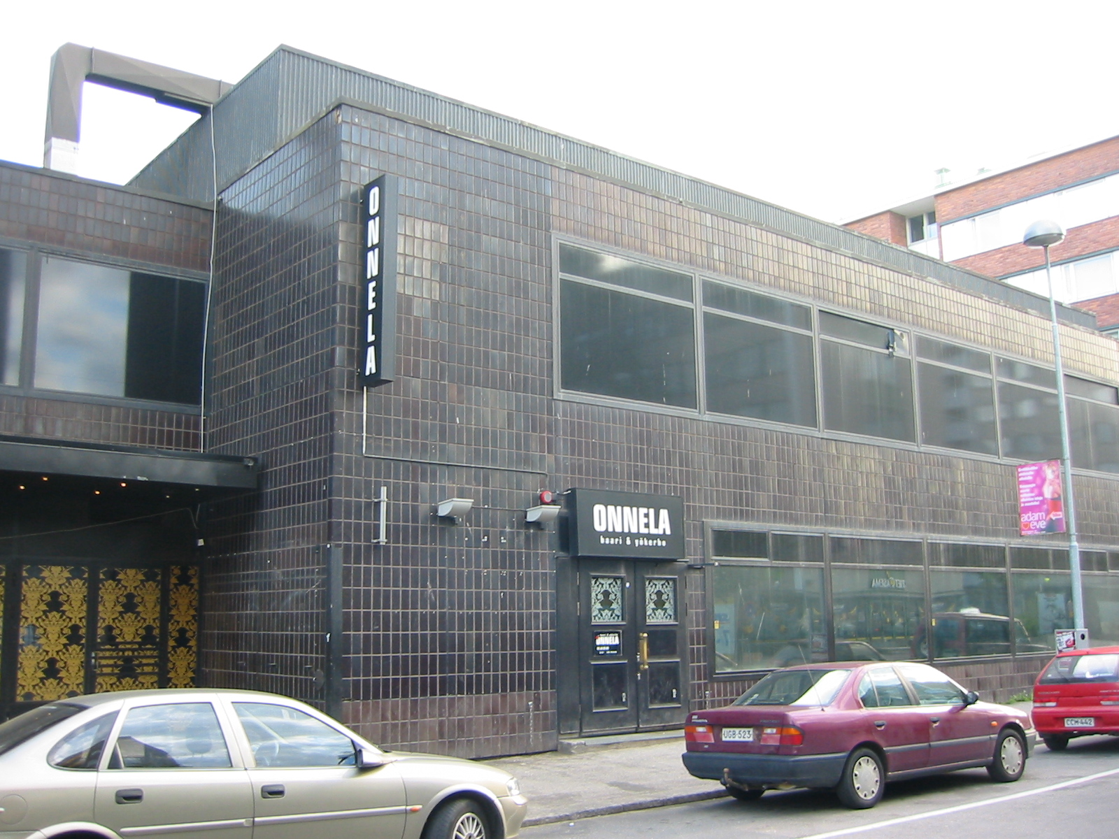 Former Onnela nightclub in Tampere, Finland.